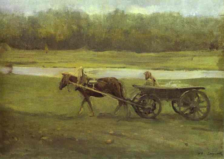 Peasant Woman in a Cart